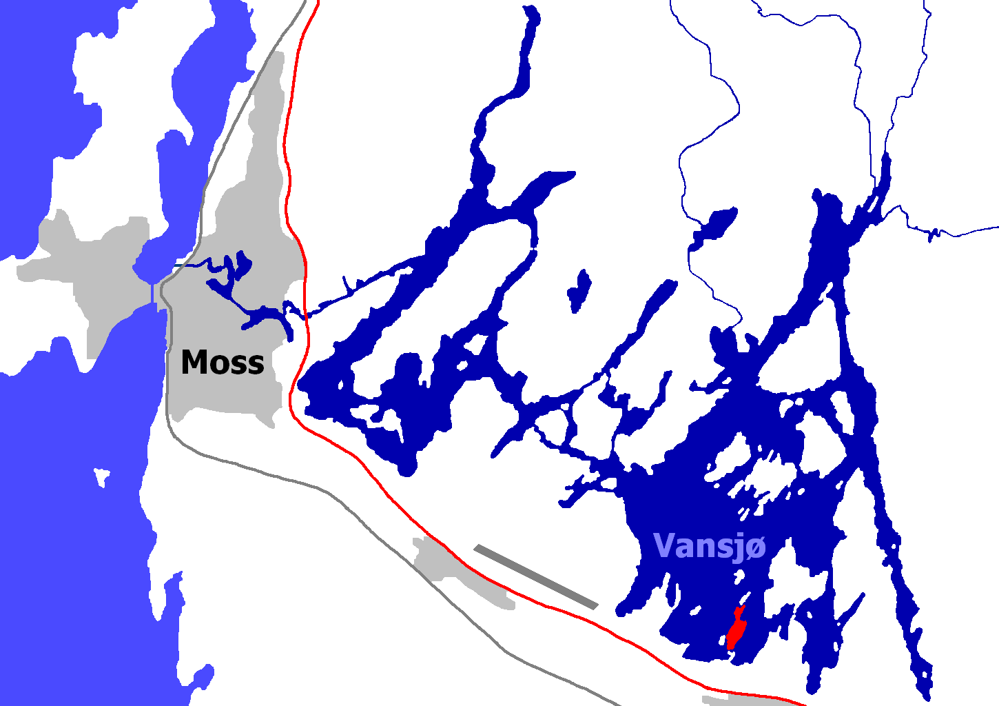 Map of the lake Vansjø. The island of Langøya in red. Created by JohnM 21:35, 20 May 2006 (UTC)